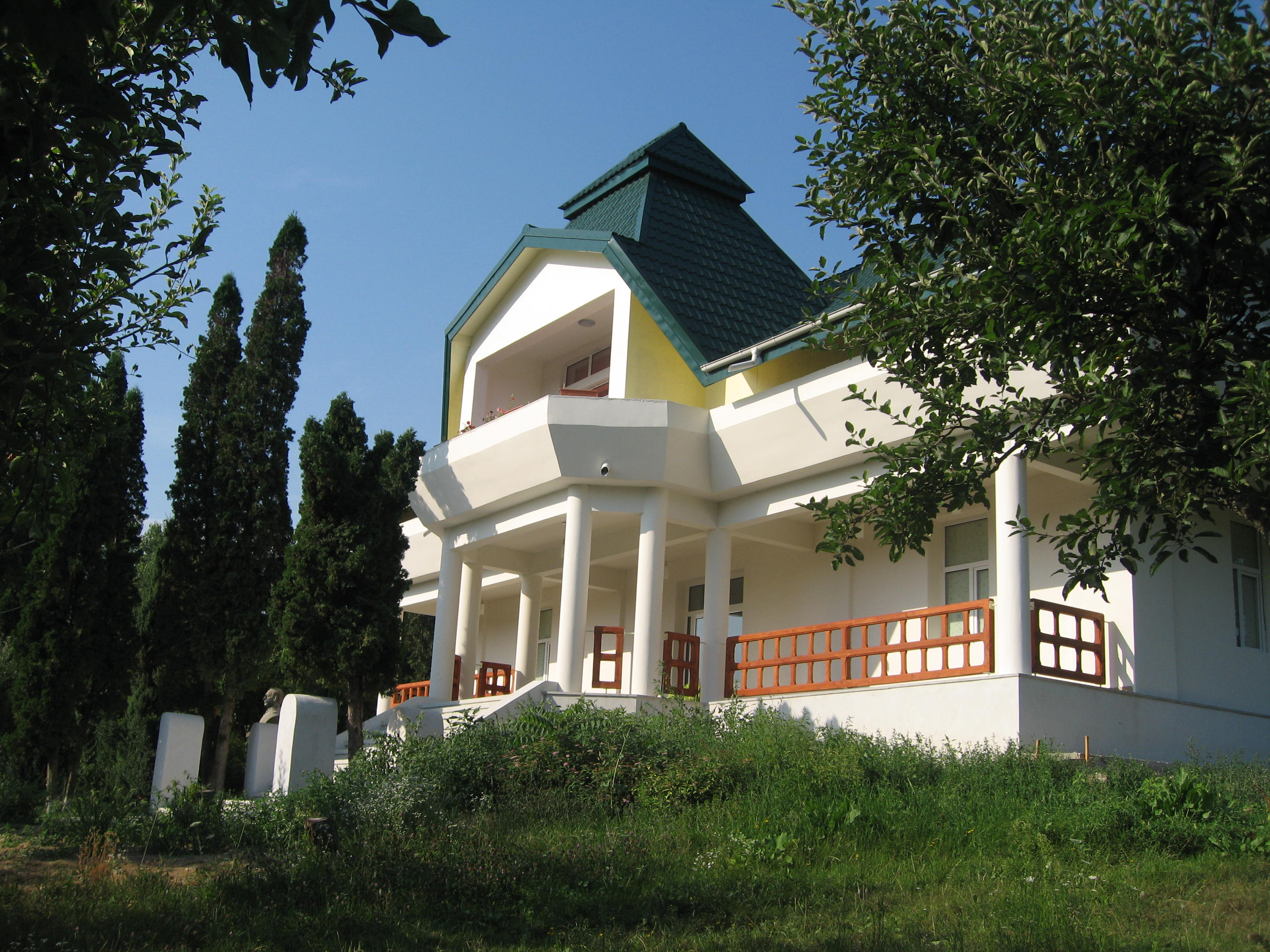 Conacul lui Ion Inculeţ din Bârnova